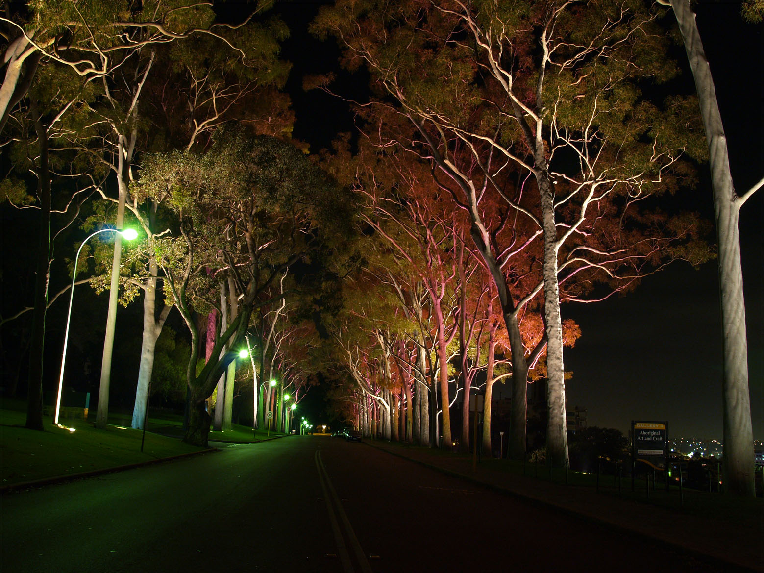 Night on Fraser Avenue — in Kings Park, Perth, Western Australia.